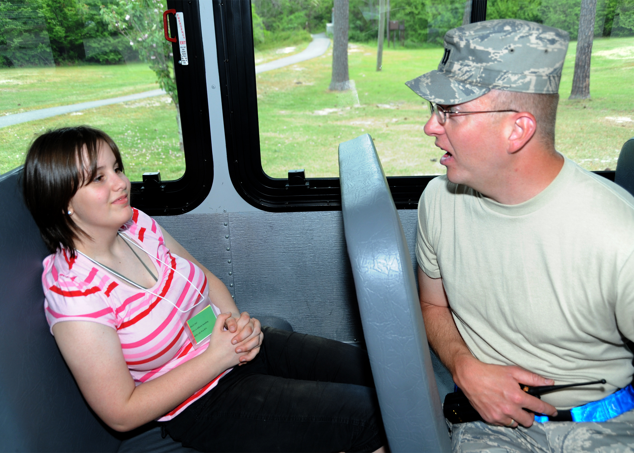 Captain Hoyer, 440th Airlift Wing Medical Squadron, offers some acting advice to 15 year old Civil Air Patrol Cadet Candra Wilson during a mass casualty exercise at Pope Air Force Base, N.C., April 17, 2010. Wilson, a cadet with the Fayetteville Civil Air Patrol Composite Squadron had the unique opportunity to volunteer as a casualty during the exercise where she had to portray a crash victim that was in shock. (U.S. Air Force photo/ Staff Sergeant Jacqueline Pender)